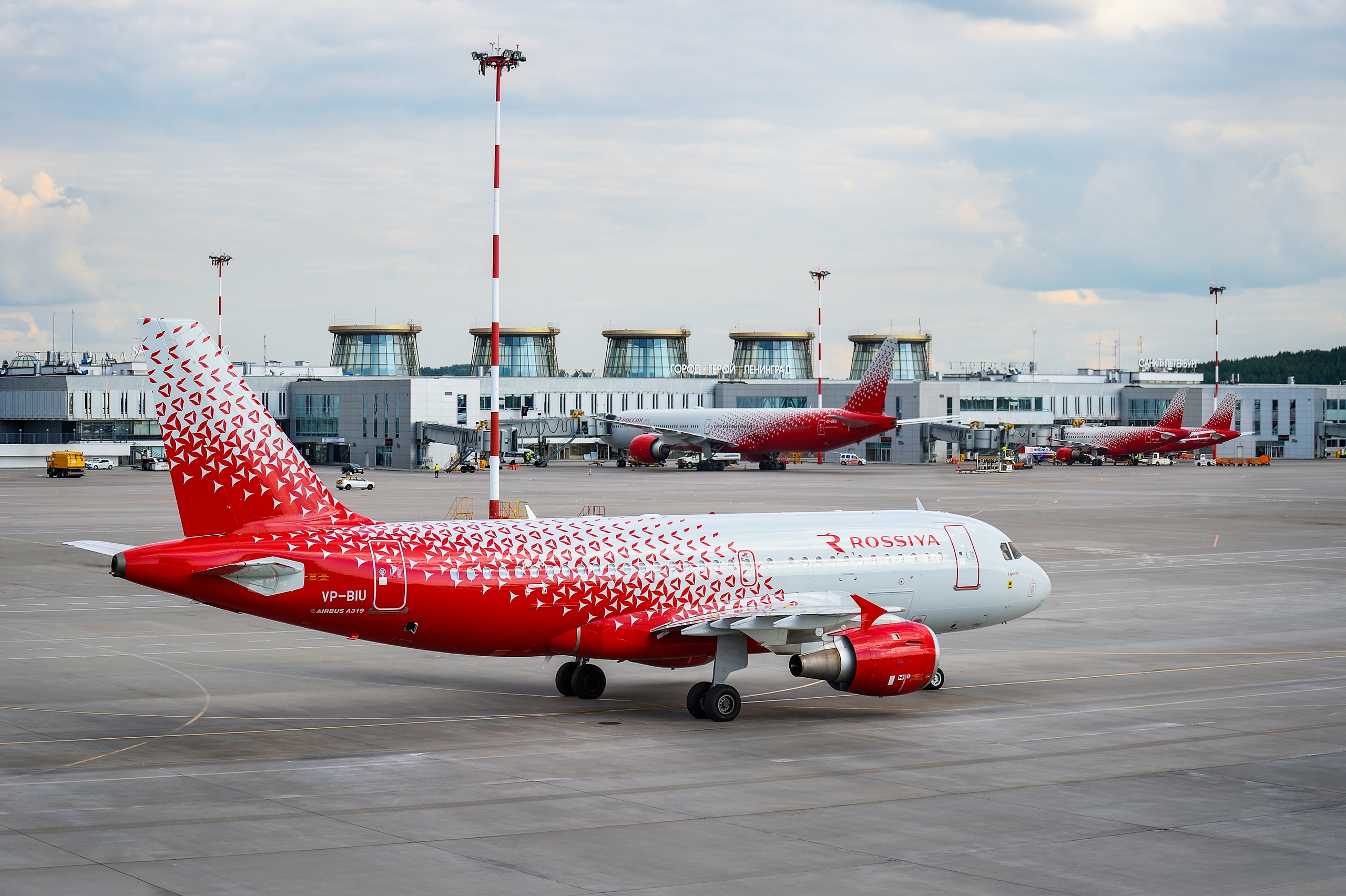 A319 in brand new livery of Rossiya Airlines at Pulkovo airport